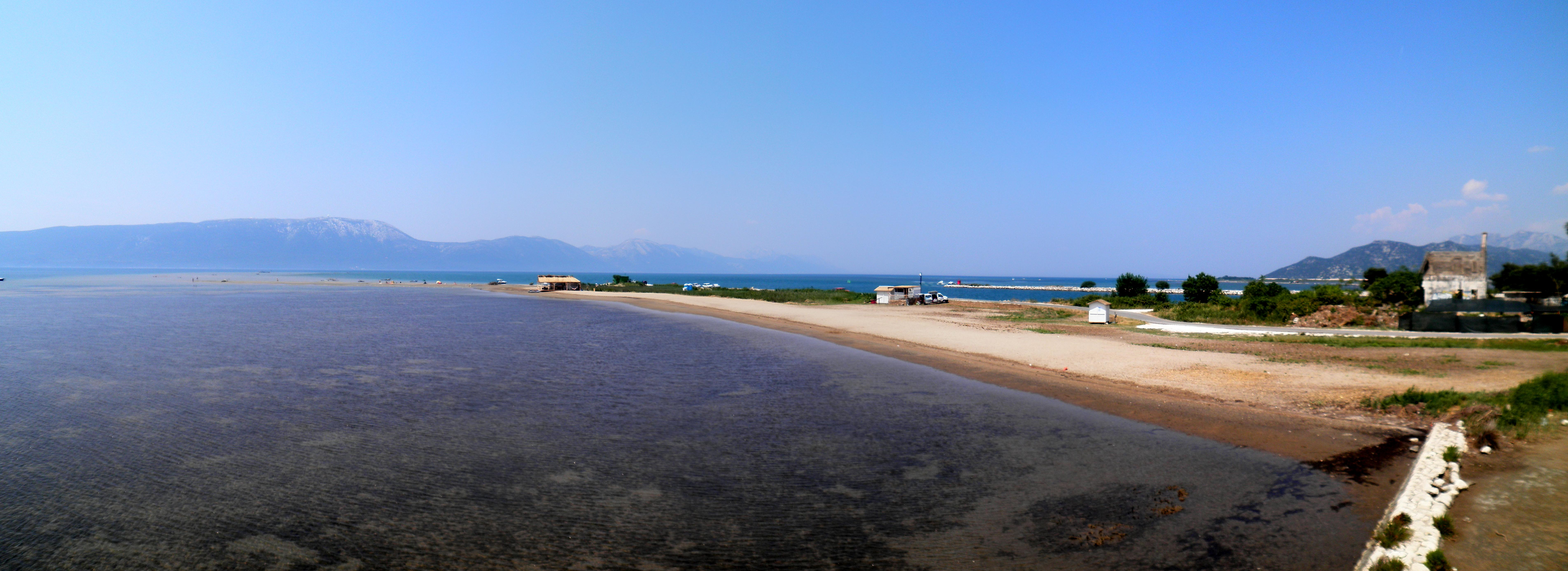 The Neretva river estuary into Adriatic sea